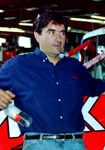 NASCAR driver Rick Carelli